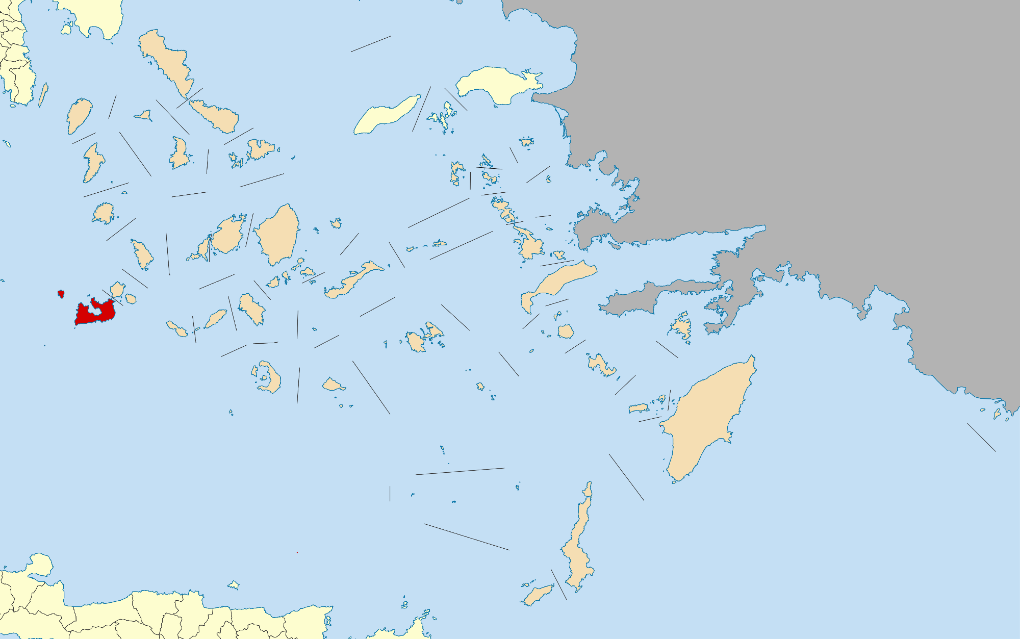 Locator map for Milos municipality in Greek region South Aegean (2011)